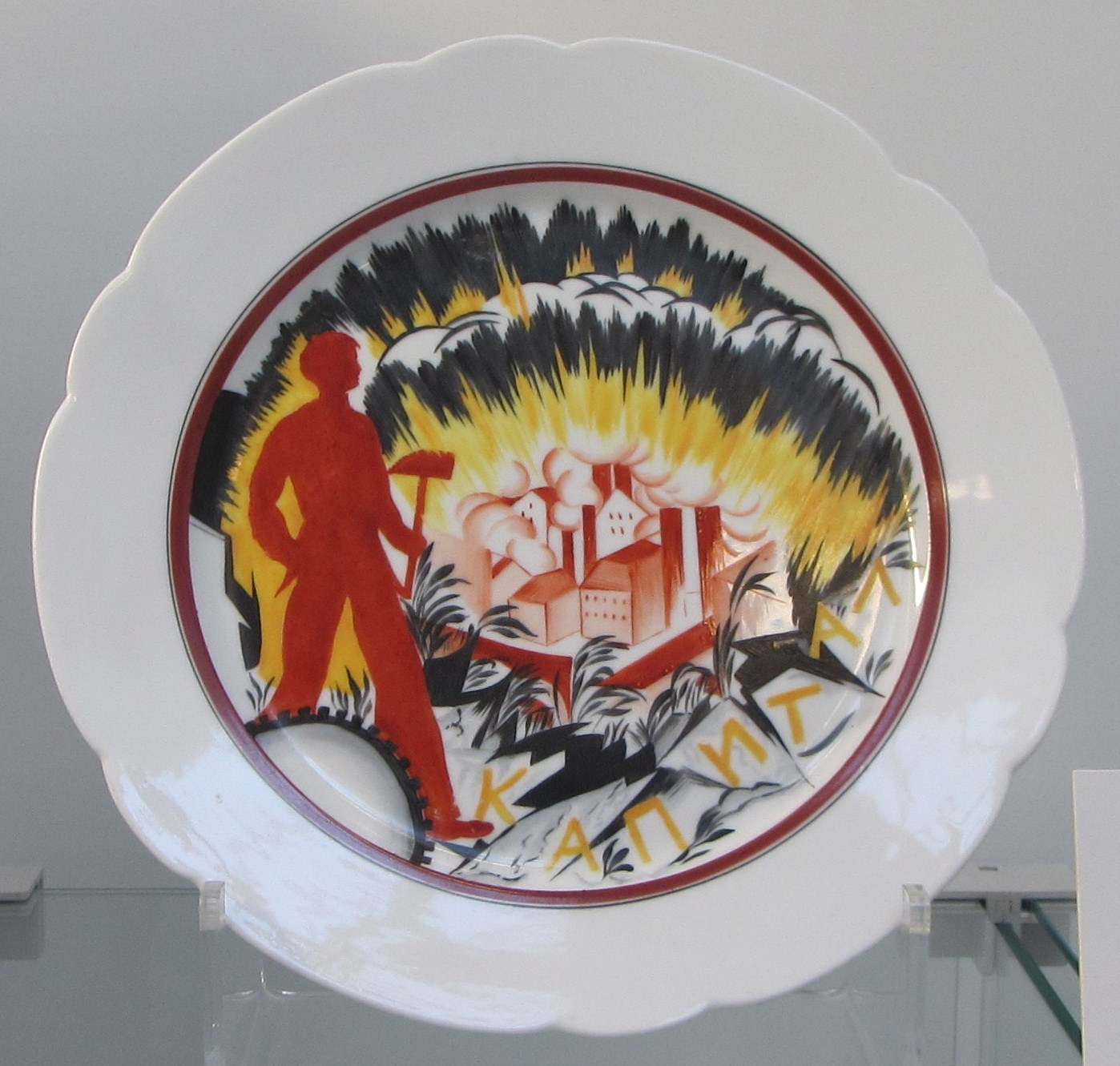 Porcelain plate made at the Imperial Porcelain Factory in Petrograd in 1901, and decorated with a revolutionary design by Mikhail Mikhailovich Adamovich (1884–1947) depicting a worker trampling on the word "Kapital". Plate held at the British Museum, London (Room 48, Registration number 1990,0506.1).